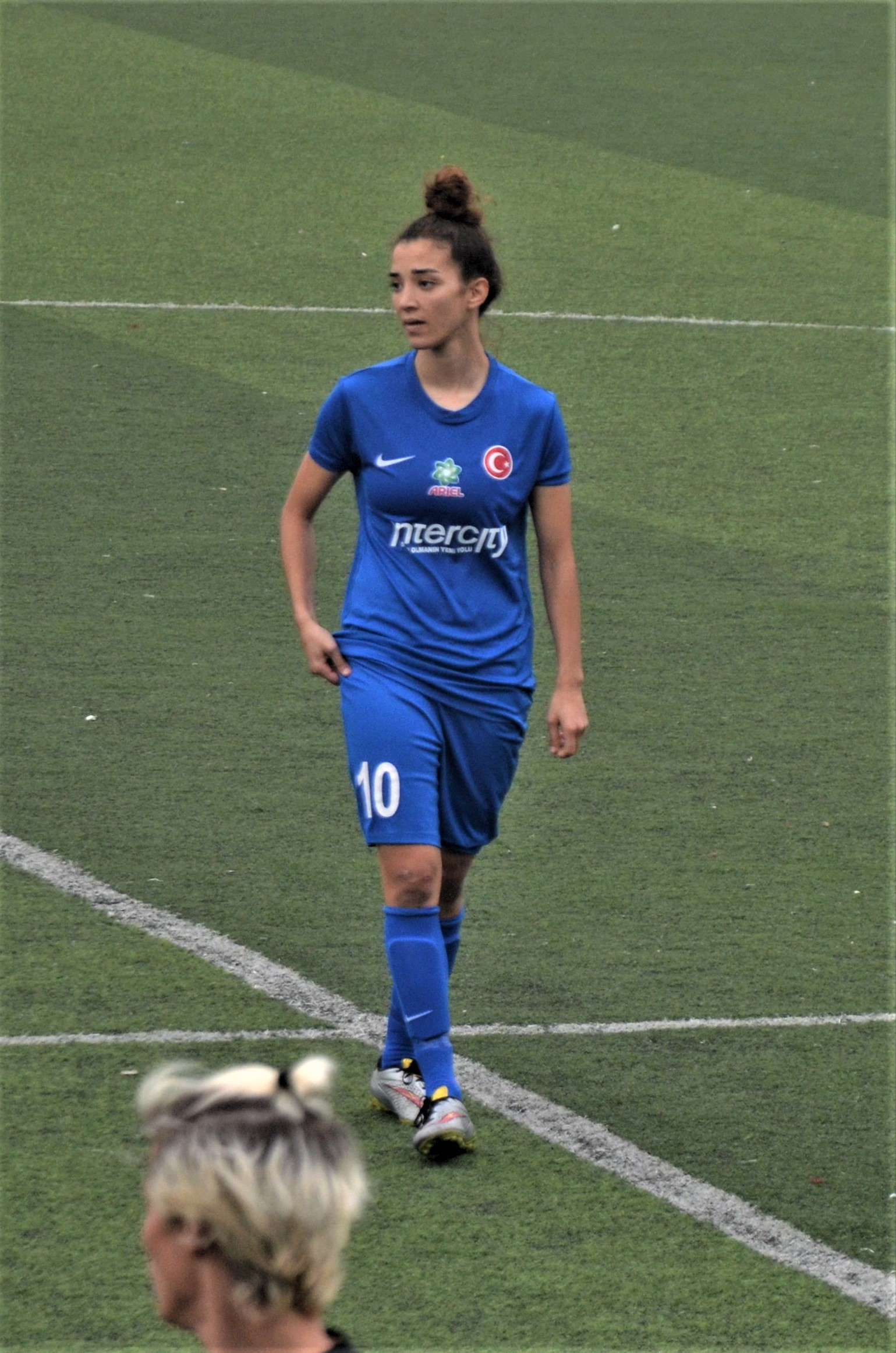 Mariem Houij playing for Ataşehir Belediyespor in the 2018-19 Turkish Women's First Football League.